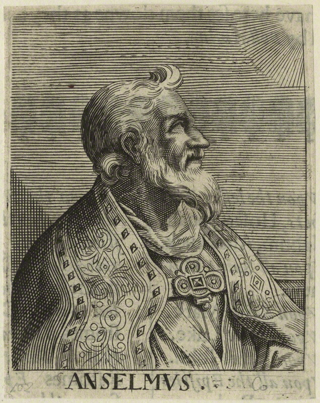 anselmvs. A mid-17th century line-engraved portrait of St Anselm by George Glover (3 1/8 in. x 2 1/2 in. [79 mm x 63 mm] paper). Donated to the National Portrait Gallery by Elizabeth Stopford in 1931. (NPG D23953)